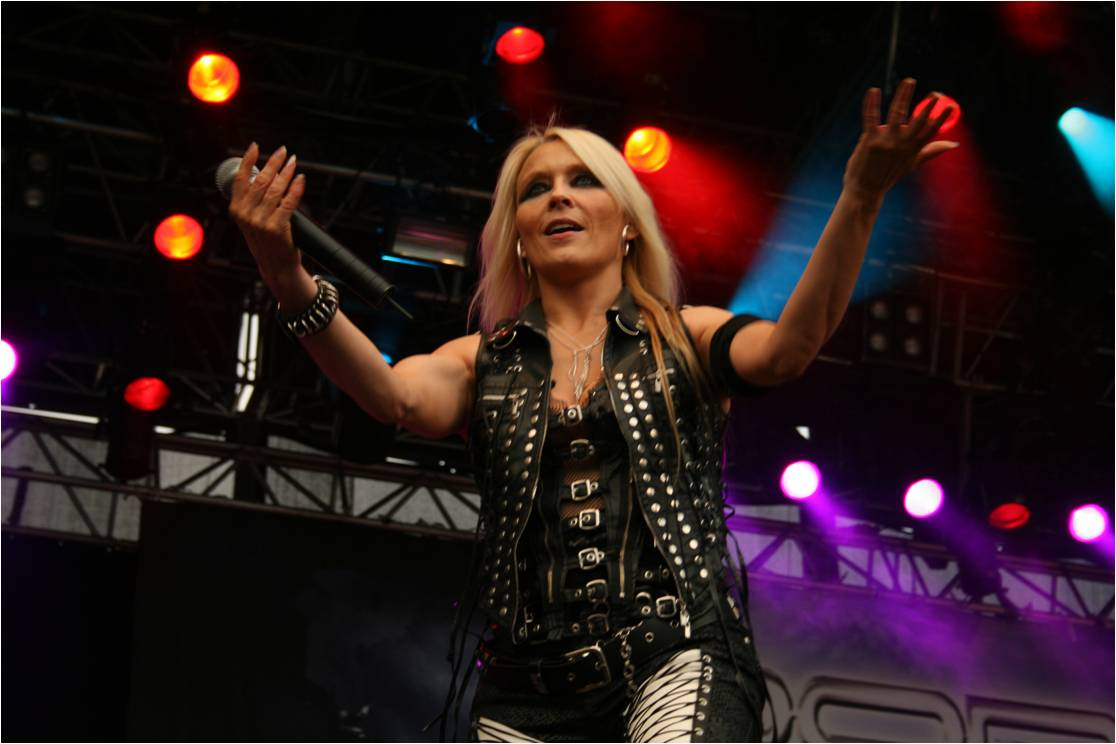 Doro at Norway Rock Festival 2009